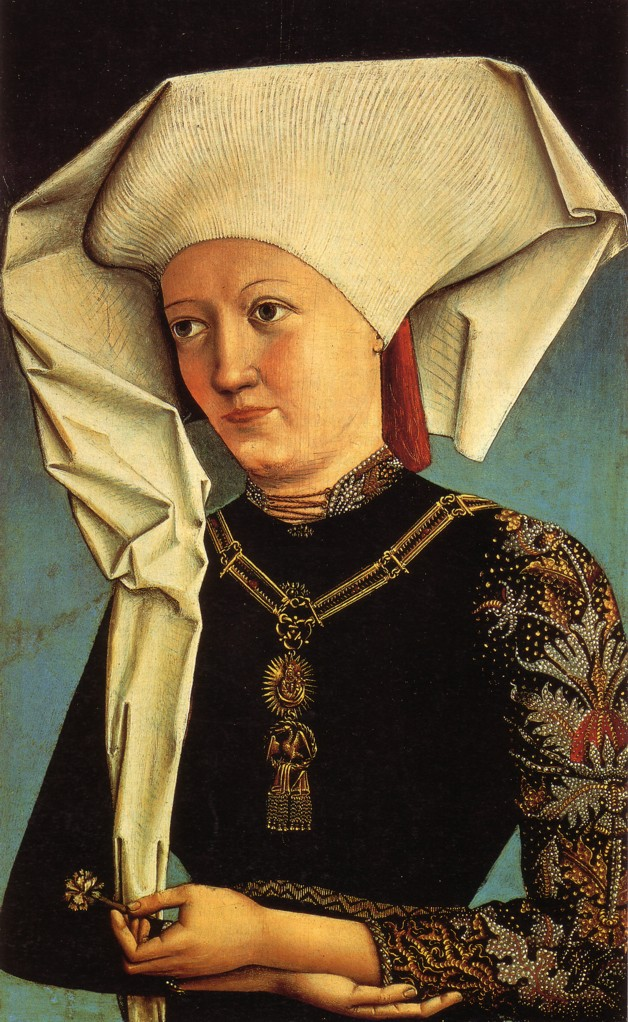 Sog. Bild der Hemma von Gurk/so called Picture of Hemma of Gurk; Sebald Bopp; Tempera auf Nadelholz, H 44,5 x B 28 cm